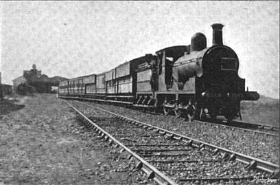 East Indian Railway Mail leaving Kalka Station circa 1906